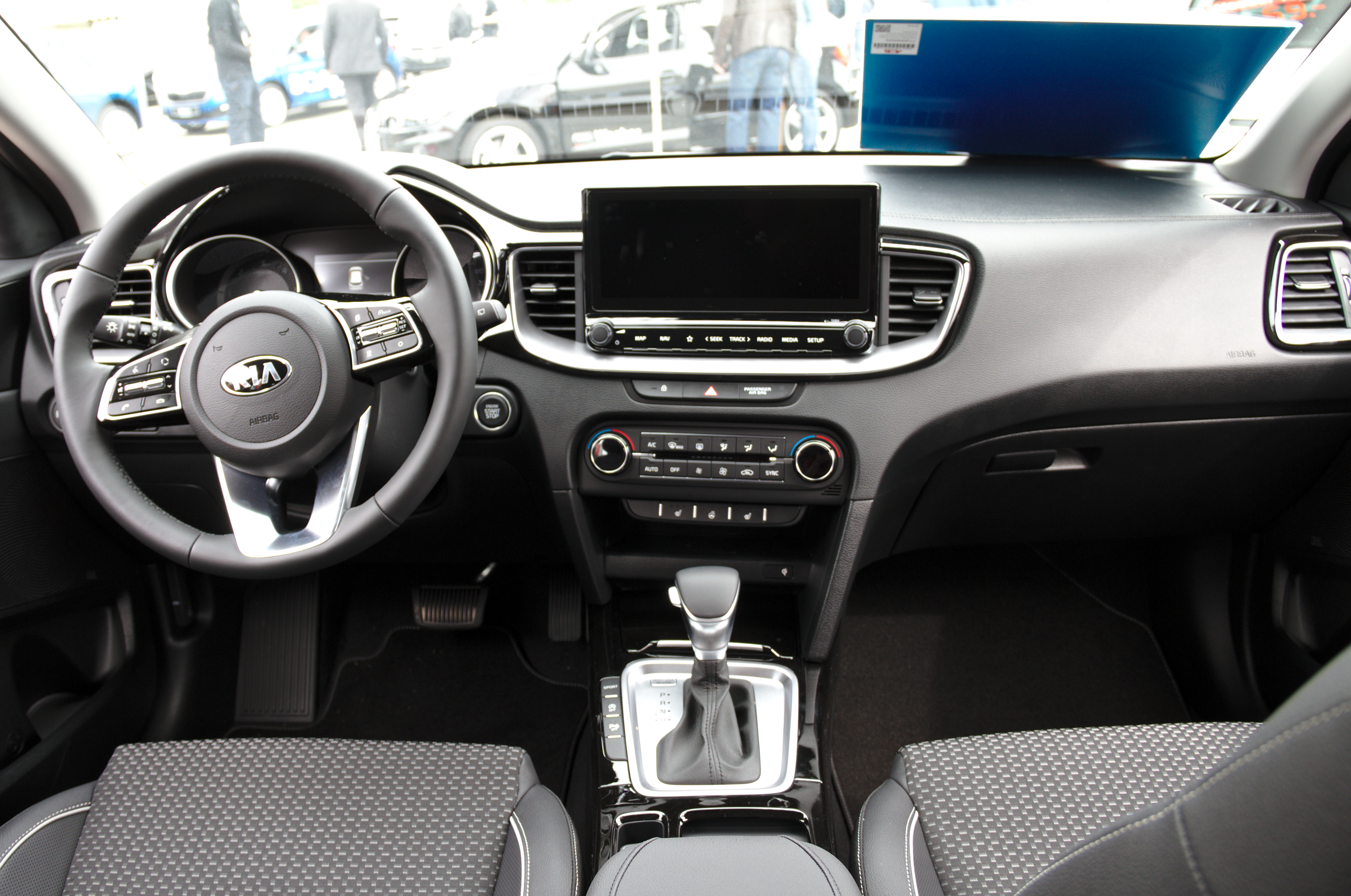 Kia_XCeed at Leonberger Autoschau 2019